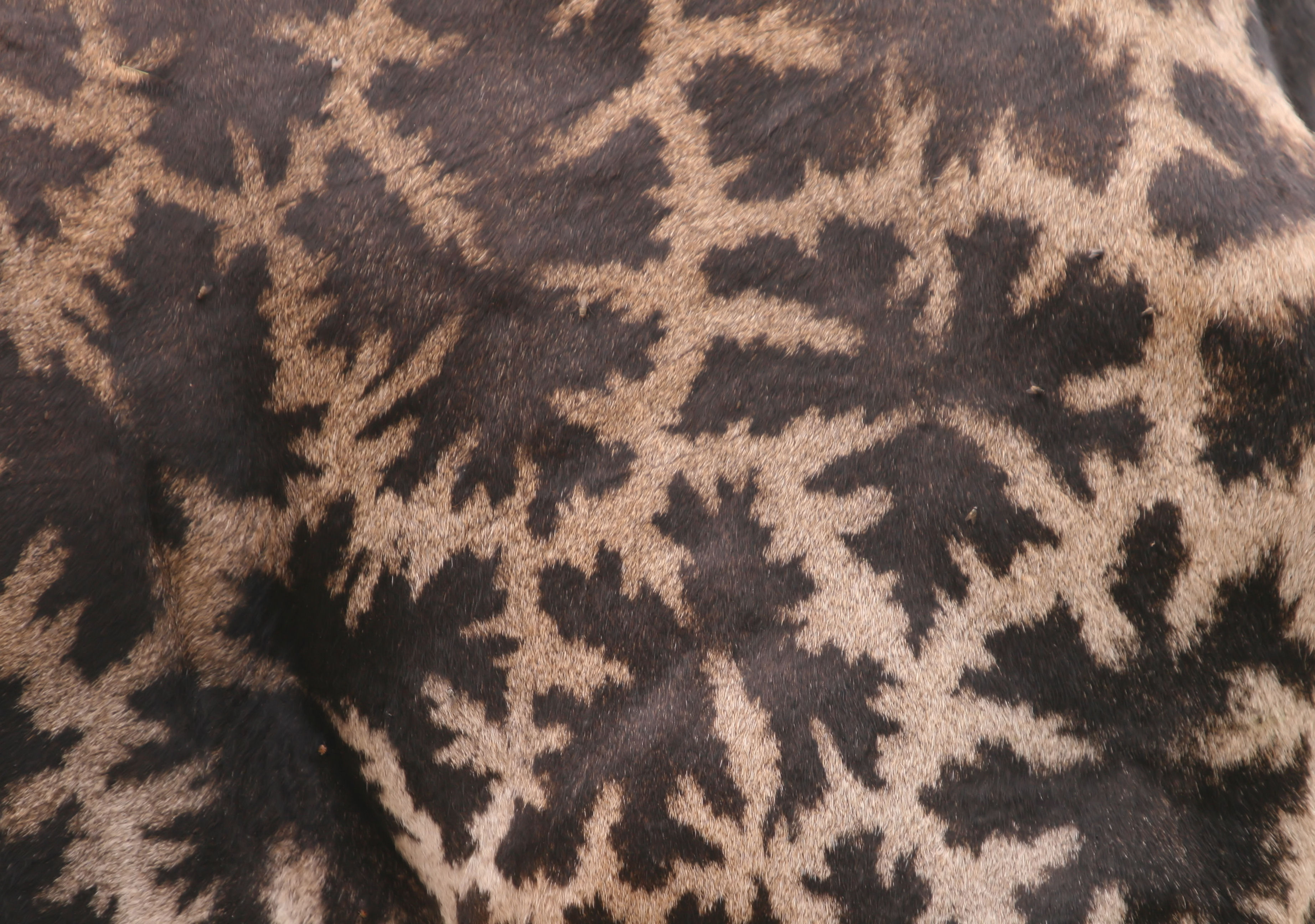 Fur of Masai Giraffe (Giraffa camelopardalis tippelskirchi), picture taken at Lake Manyara Nationalpark, Tanzania